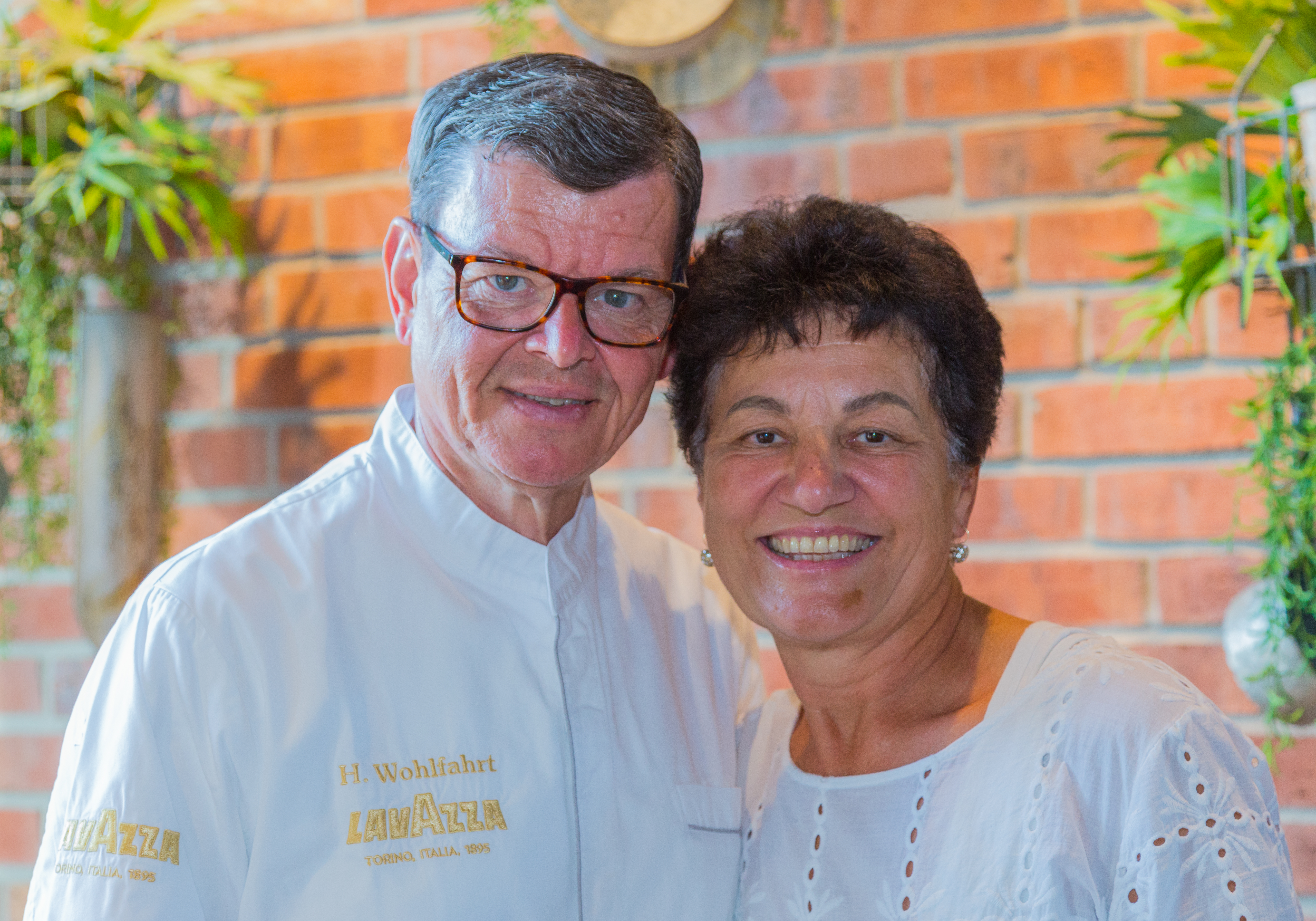 German chef Harald Wohlfahrt and his wife Slavka at The Workshop (Die Werkstatt) in Mettingen, Kreis Steinfurt, North Rhine-Westphalia, Germany.